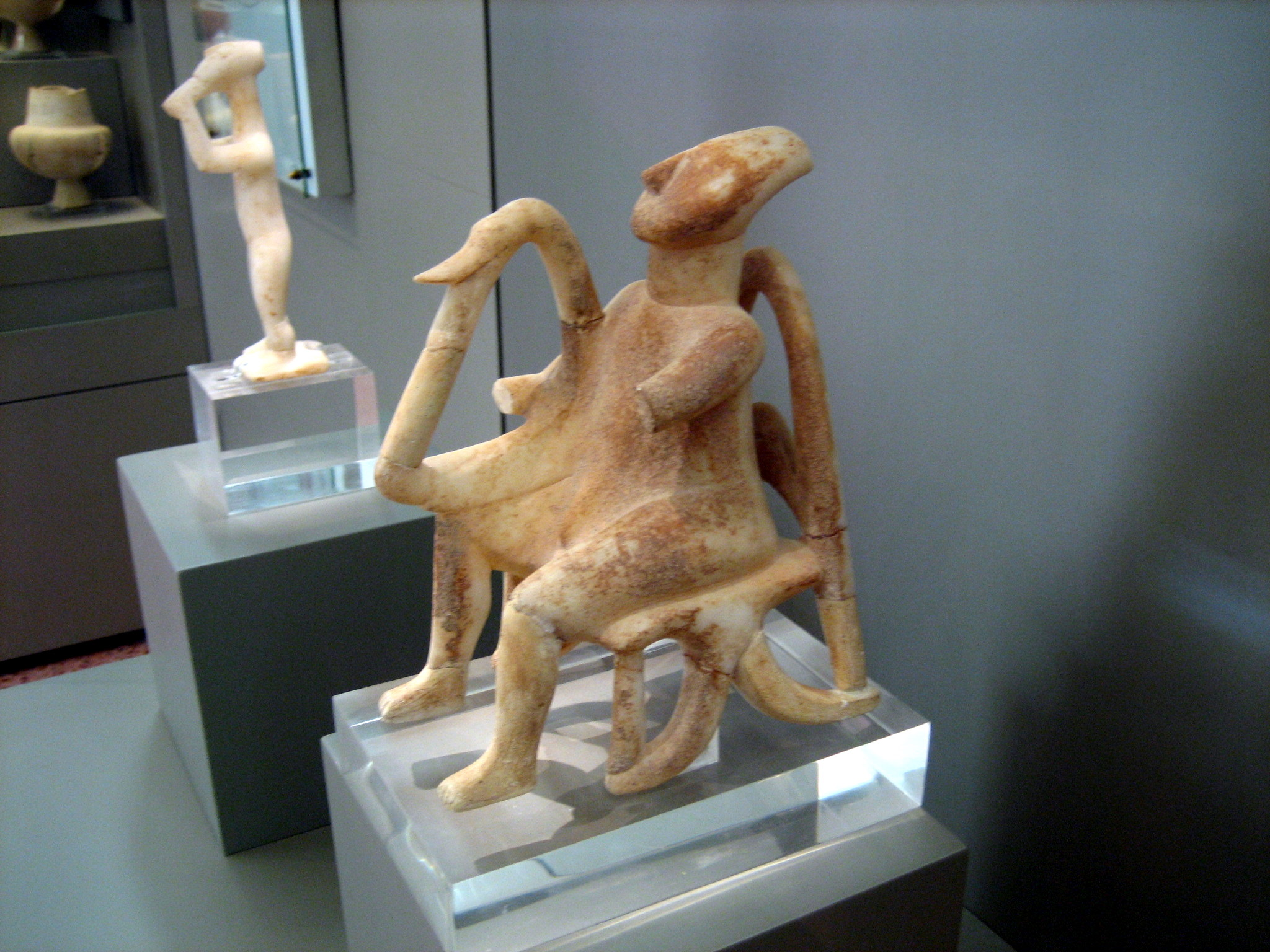 Cycladic figurine, harp player